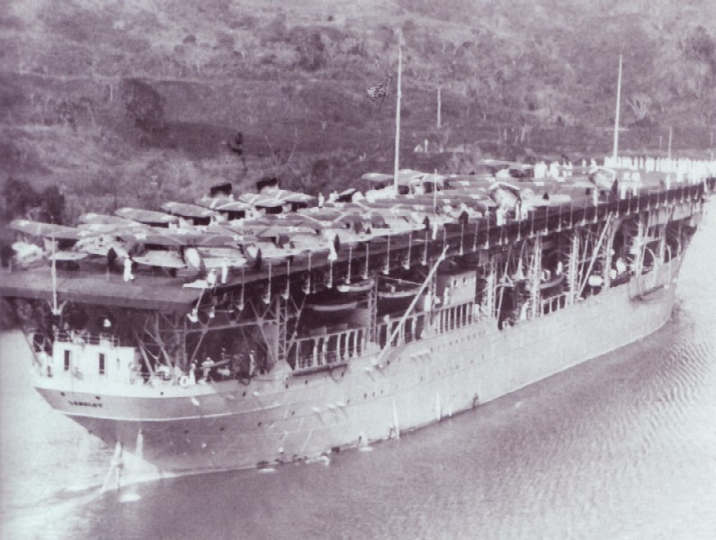 The U.S. Navy aircraft carrier USS Langley (CV-1) in the Panama Canal, in the 1930s.